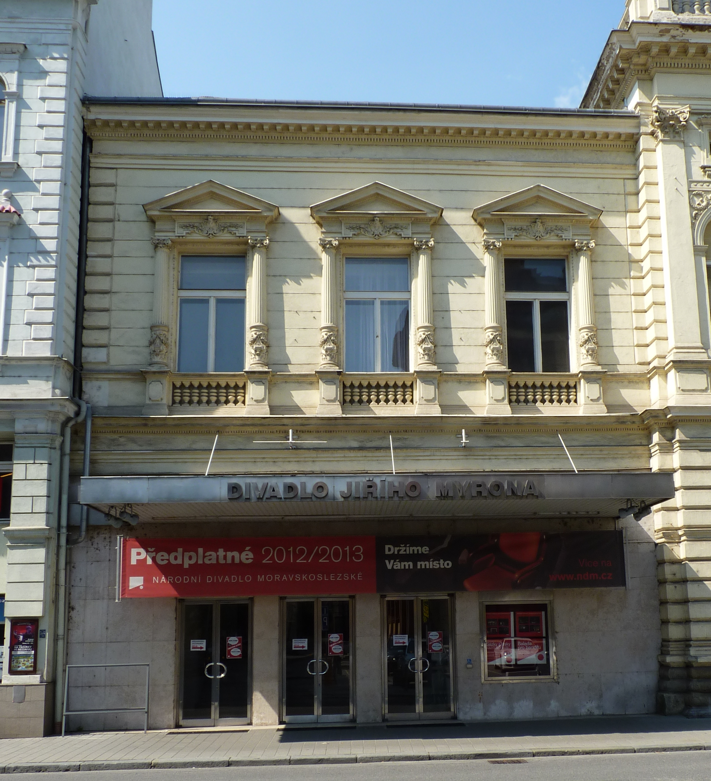 Ostrava, street čs. legií 14. Ostrava, Moravian-Silesian Region, Czech Republic